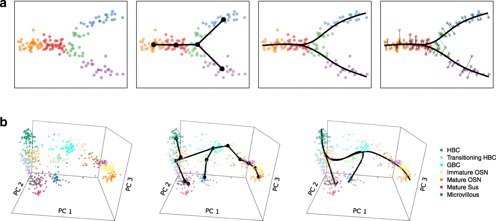 Schematics of Slingshot’s main steps. The main steps for Slingshot are shown for: Panel (a) a simple simulated two-lineage two-dimensional dataset and Panel (b) the single-cell RNA-Seq olfactory epithelium three-lineage dataset of [26] (see Results and discussion for details on dataset and its analysis). Step 0: Slingshot starts from clustered data in a low-dimensional space (cluster labels indicated by color). For Panel (b), the plot shows the top three principal components, but Slingshot was run on the top five. Step 1: A minimum spanning tree is constructed on the clusters to determine the number and rough shape of lineages. For Panel (b), we impose some constraints on the MST based on known biology. Step 2: Simultaneous principal curves are used to obtain smooth representations of each lineage. Step 3: Pseudotime values are obtained by orthogonal projection onto the curves (only shown for Panel (a))